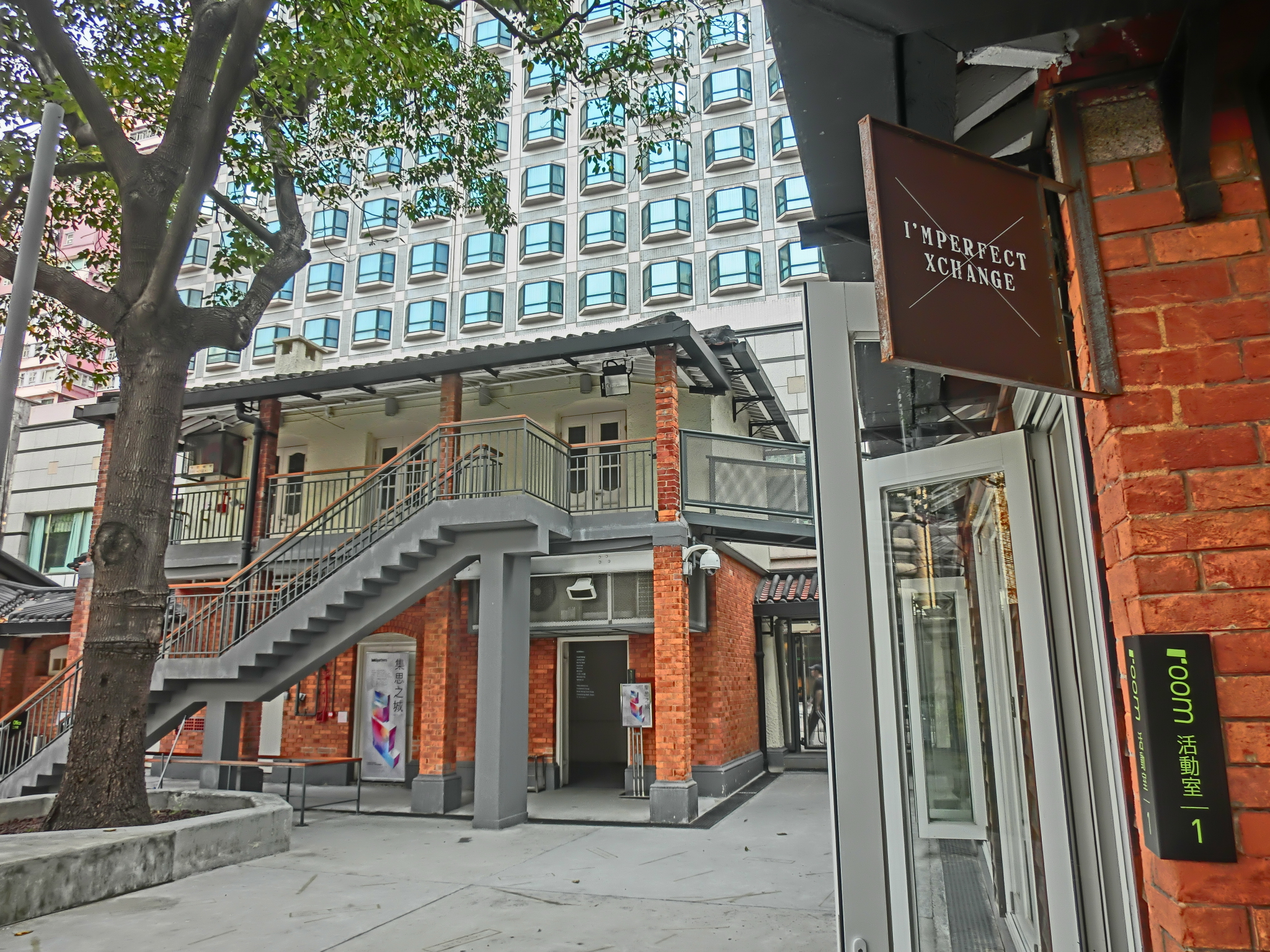 北角油街實現, Oil Street Art Space, Oil Street, North Point, Hong Kong